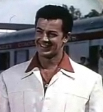 Screenshot of Cornel Wilde from the trailer for the film The Greatest Show on Earth.